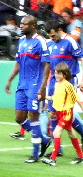 Gallas and Sangol enter the stadium before the Euro 2008 match Holland - France on 13.06.2008